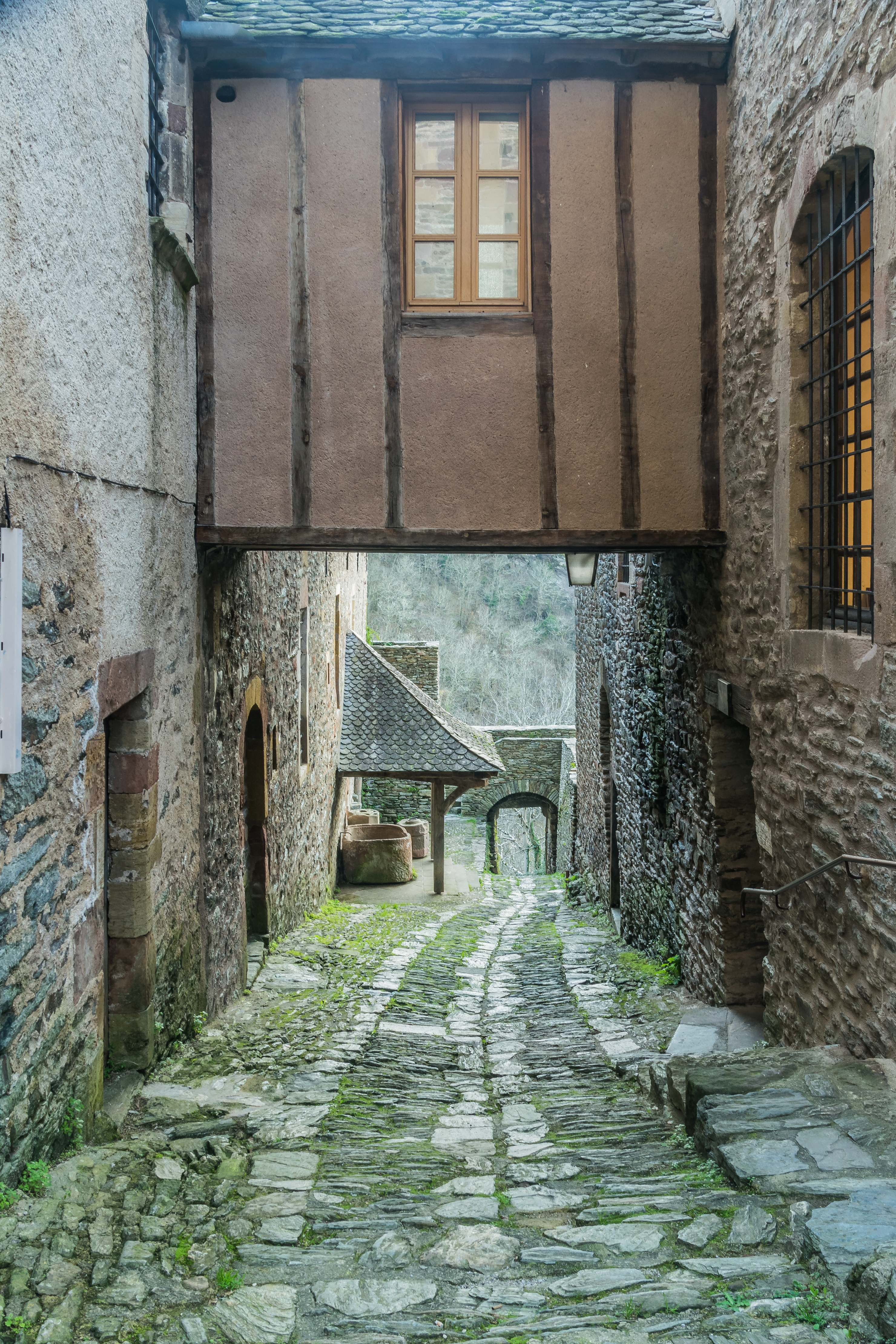 Passage to Porte du Fer in Conques, Aveyron, France